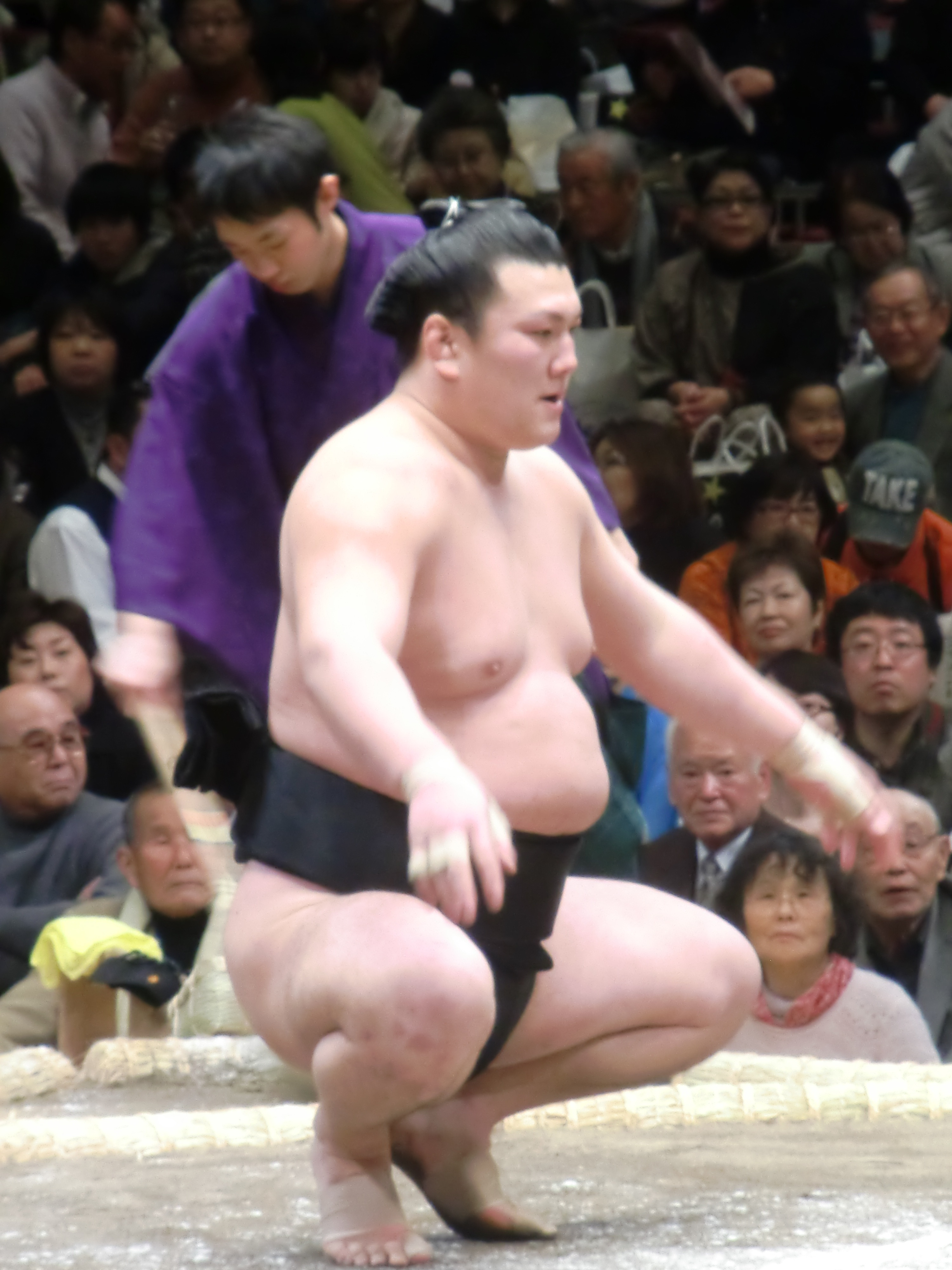 taken at 2012 Jan tournament